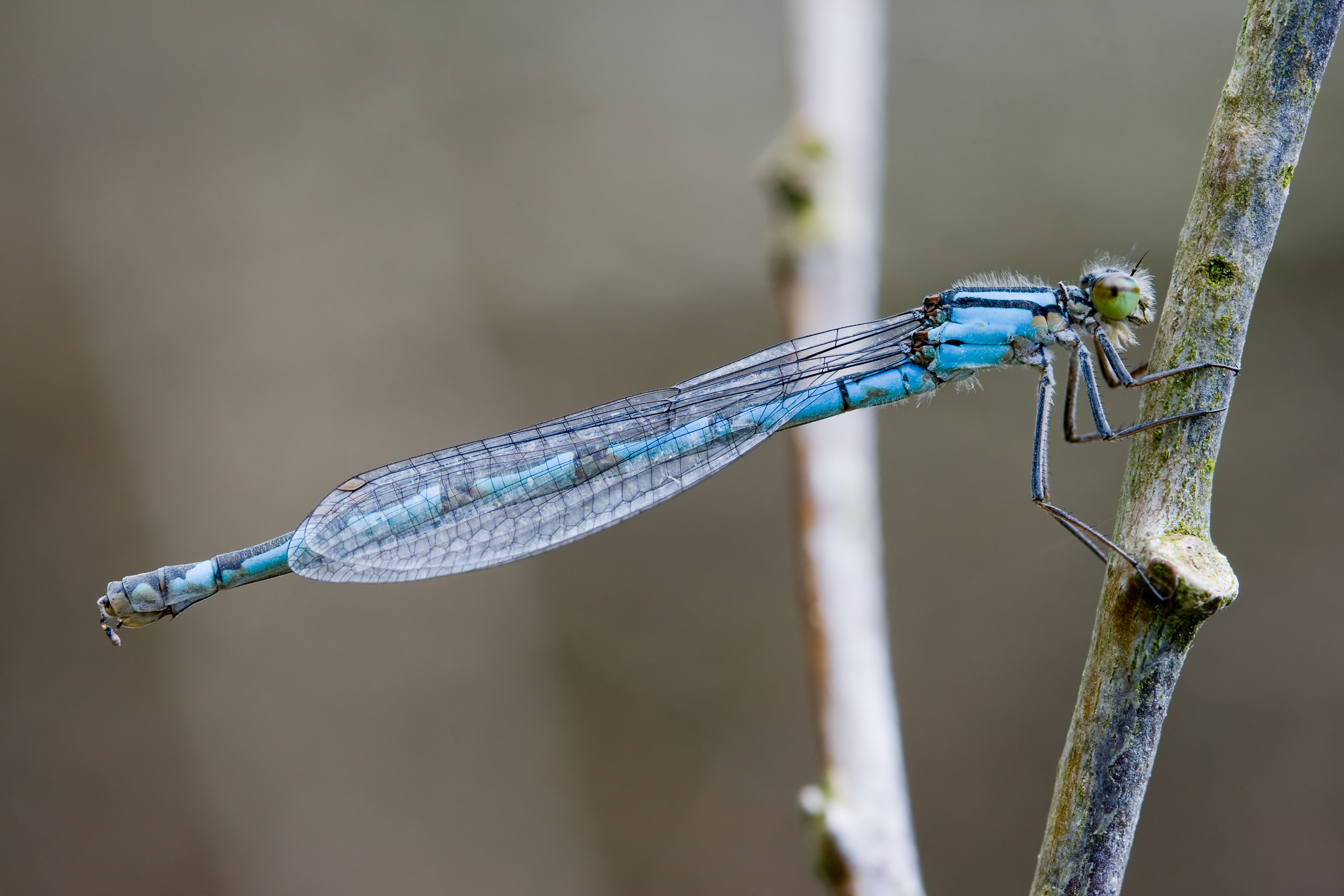 A andromorph (male coloured) female of the Common Blue Damselfly (Enallagma cyathigerum) after a rain period in the Ahlenmoor, a peatland in northern Lower Saxony, Germany.